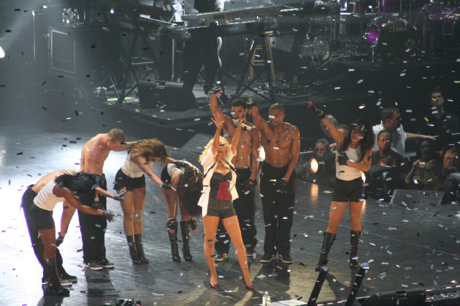 Christina Aguilera performing "Fighter" at the encore of "Back to Basics Tour" in a confetti rain